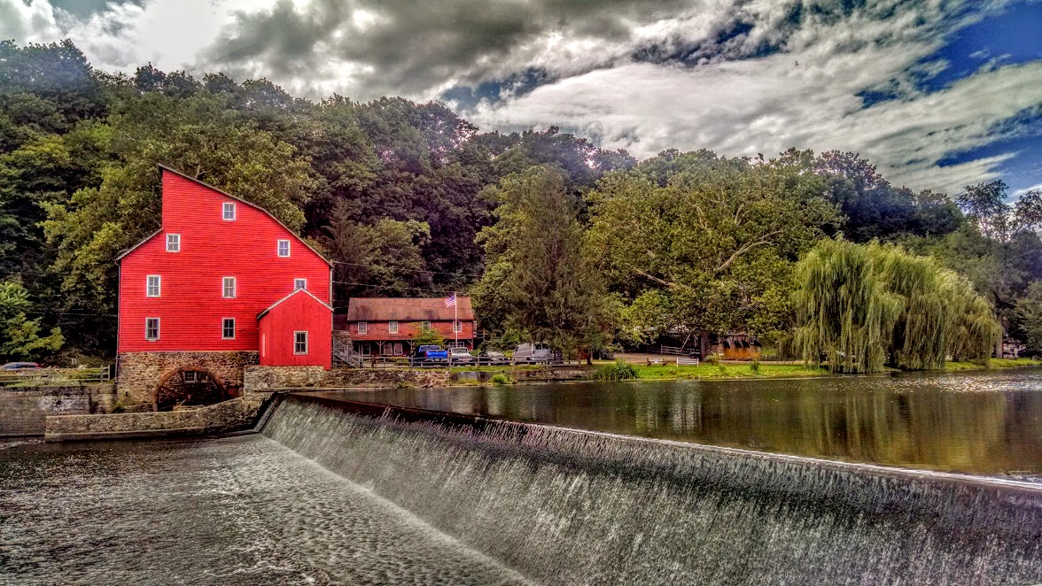 The Red Mill in Clinton New Jersey viewed from across the Raritan River.